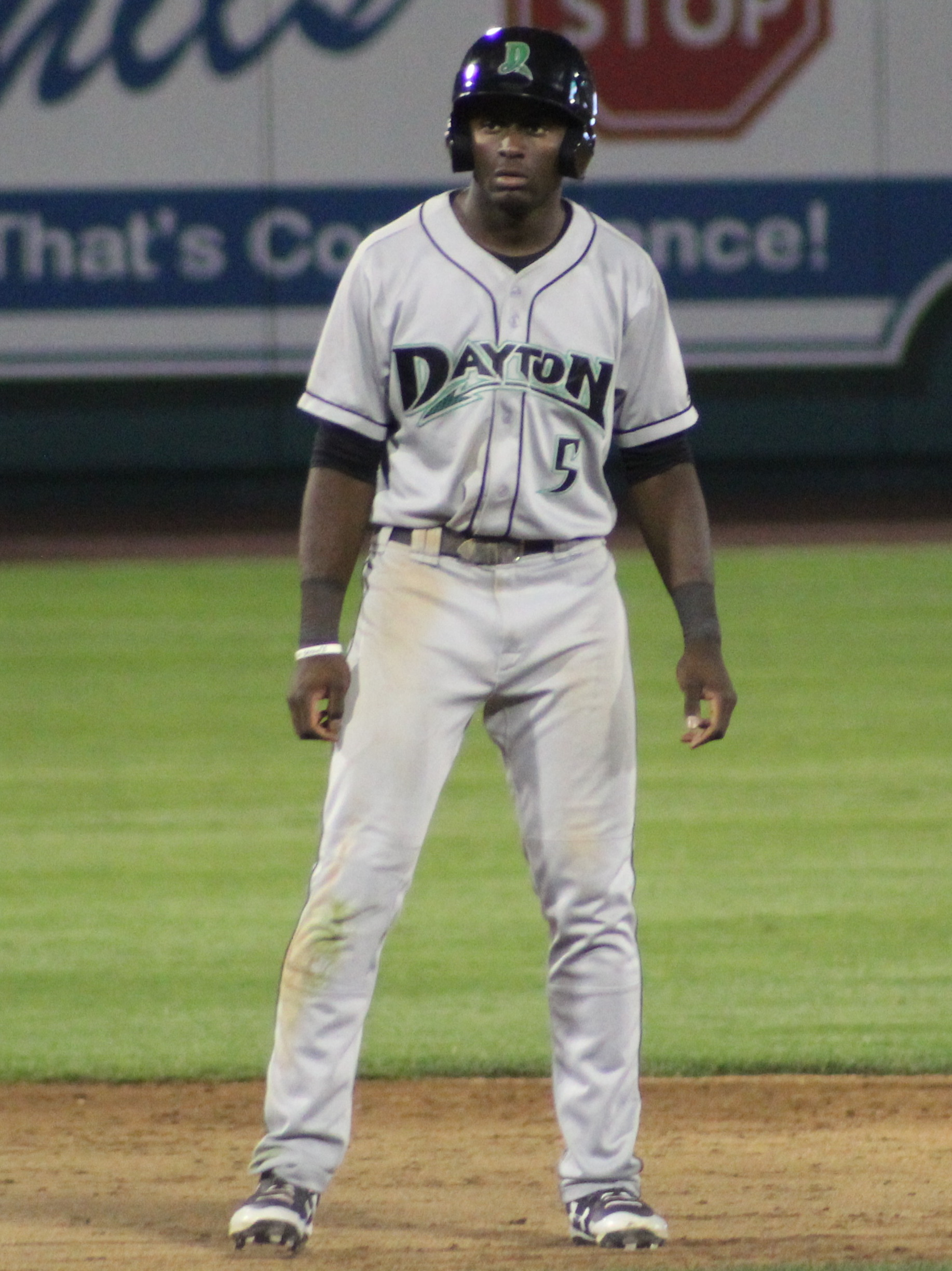 Taylor Trammell with the Dayton Dragons during a 2017 game at Parkview Field in Fort Wayne, Indiana